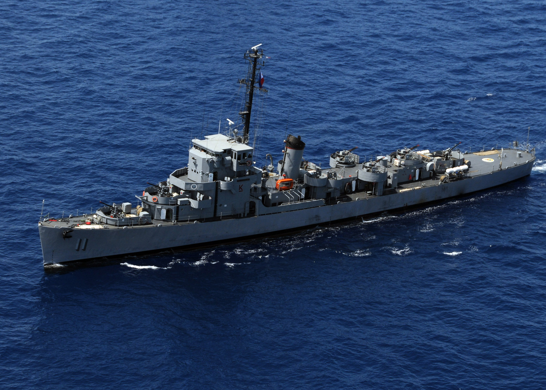 SOUTH CHINA SEA (March 14, 2010) - Republic of the Philippines Navy ship BRP Humabon (PF 11), steams in formation for a photography exercise as a part of exercise Balikatan 2010 (BK 10). Essex, commanded by Capt. Troy Hart, is part of the forward-deployed Essex Amphibious Ready Group and is participating in BK 10, an annual, bilateral exercise designed to improve interoperability between the U.S. and Republic of the Philippines. (U.S. Navy photo by Mass Communication Specialist 2nd Class Mark R. Alvarez/Released)